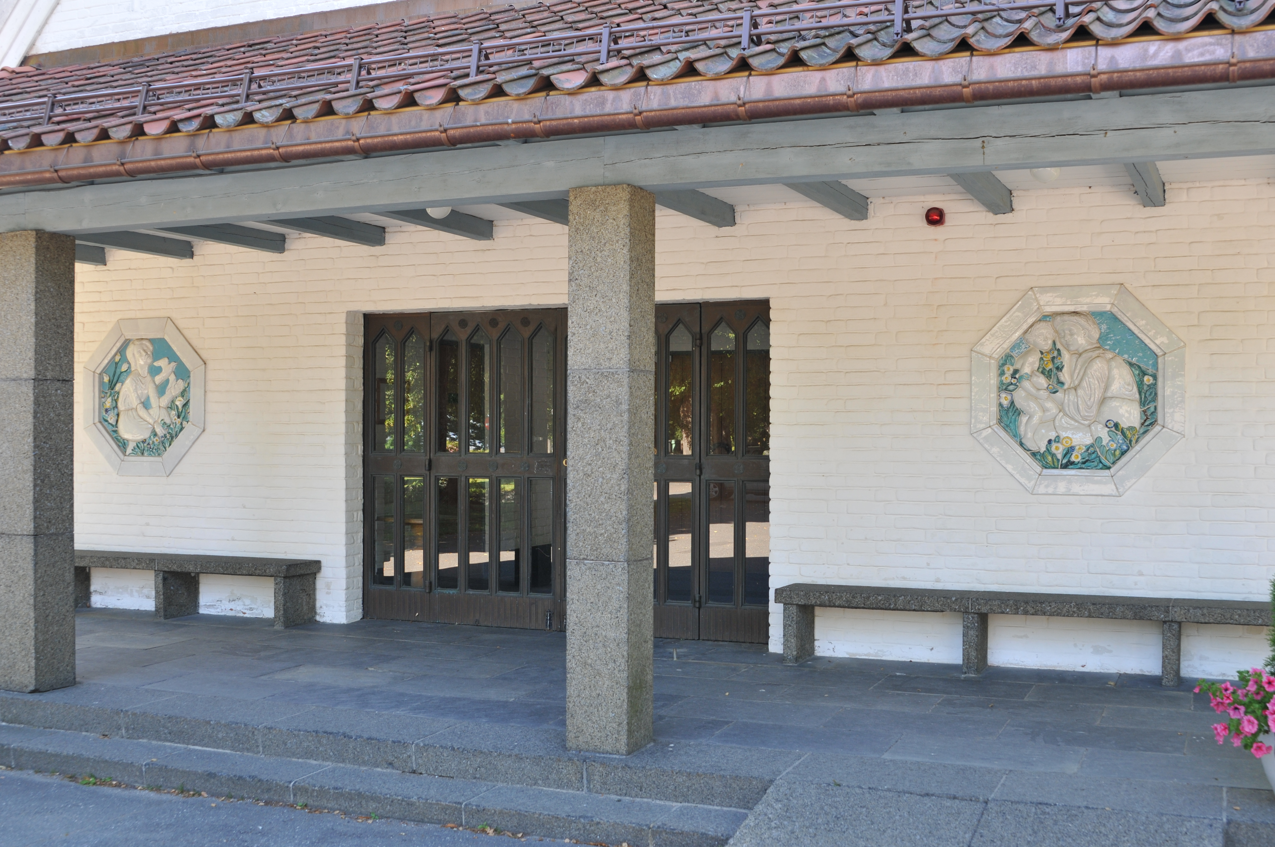 Asker krematorium, Asker, Norway - Architects Gudolf Blakstad and Herman Munthe-KaasNorsk bokmål: Asker krematorium, Asker, Norge - Arkitekter Gudolf Blakstad og Herman Munthe-Kaas